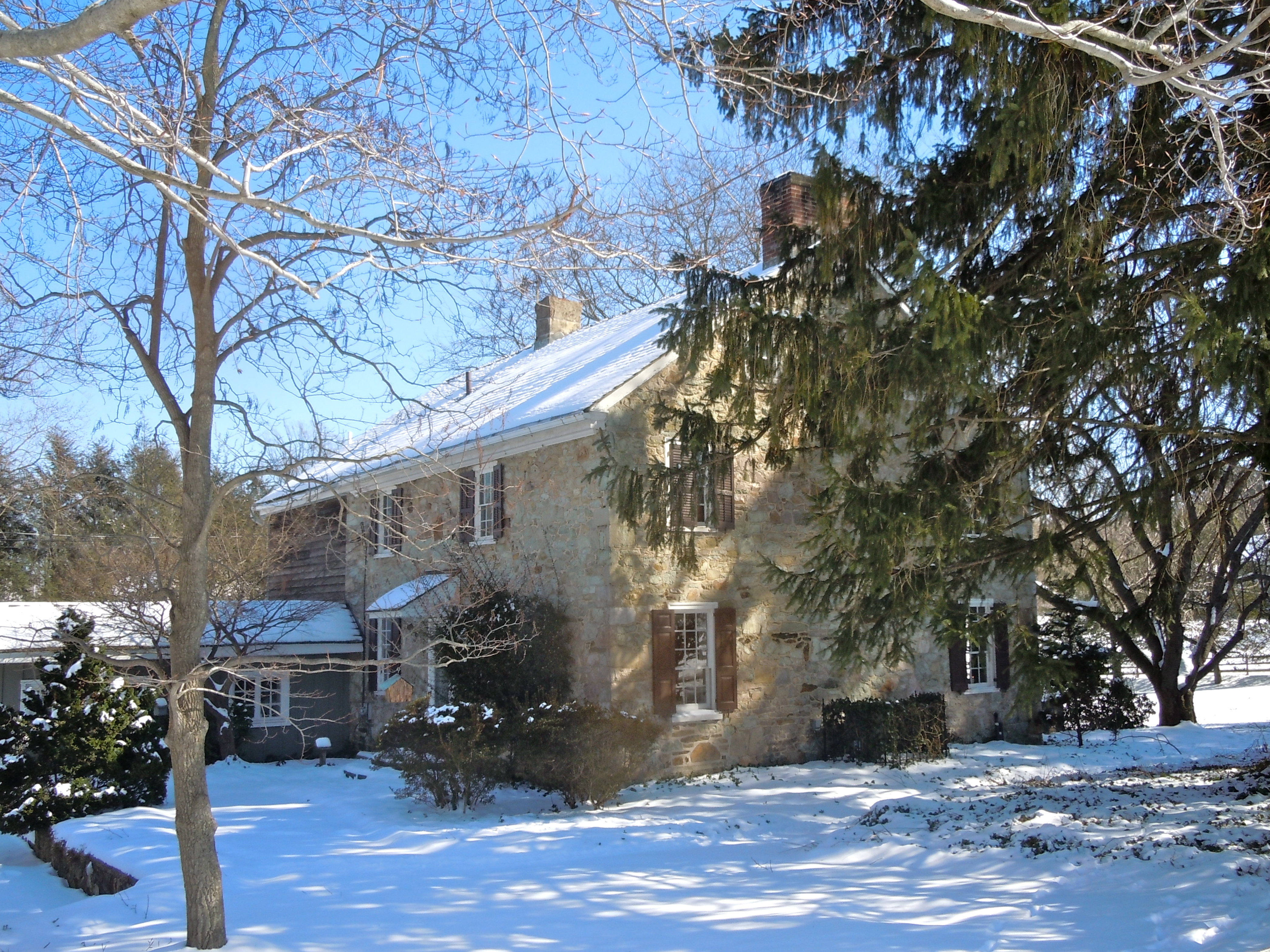 House on Gideon Wickersham Farmstead on the NRHP since January 30, 1988. At 750 Northbrook Road, East Marlborough Township, Chester County, Pennsylvania